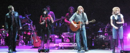 Picture taken by me on 02-28-08 in Richmond, Virginia, USA.